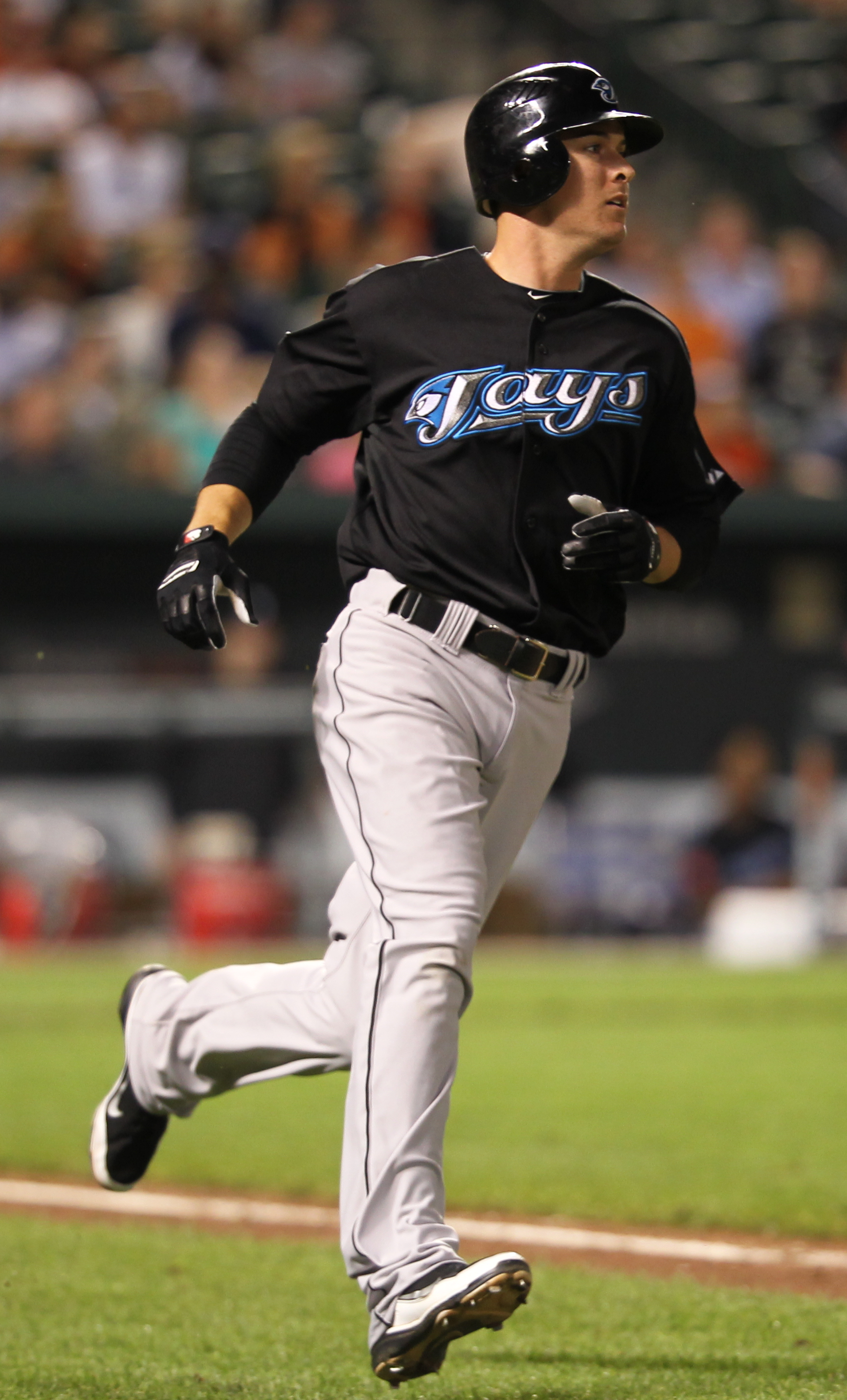 Kelly Johnson